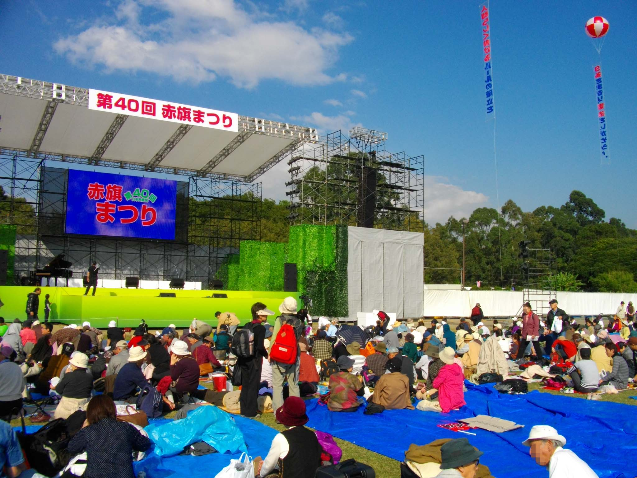 Akahata Matsuri